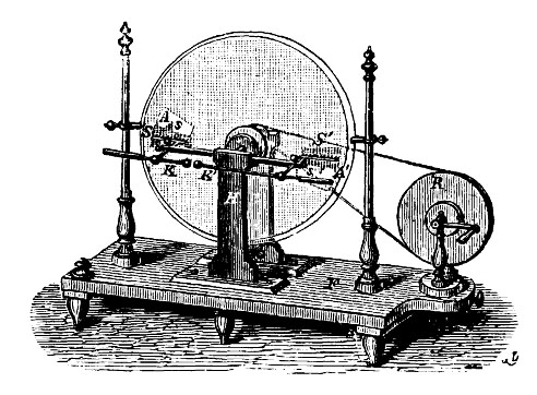 A Holtz influence machine (an electrostatic generator). Legend: R : Pulley to rotate the non-fixed disk A, A' : Holes in the fixed glass disk S, S' : Paper coverings of A, A' s, s' : Points from S, S' towards the centers of A, A' K, K' : Adjustable brass bars